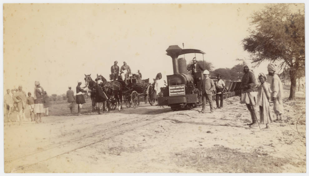 Title: Maha: Smithie Inspecting Portable Railway Creator: Dayal, Lala Deen Date: 1875-1889 Part Of: Bengal Nagpur Railroad and views of India Place: Maharashtra Territory, India Physical Description: 1 photographic print: albumen; 11 x 20 cm File: ag1982_0125_032_r_opt.jpg Rights: Please cite DeGolyer Library, Southern Methodist University when using this file. A high-resolution version of this file may be obtained for a fee. For details see the web page. For other information, . For more information and to view the image in high resolution, see: View the Europe, Asia, and Australia: Photographs, Manuscripts, and Imprints